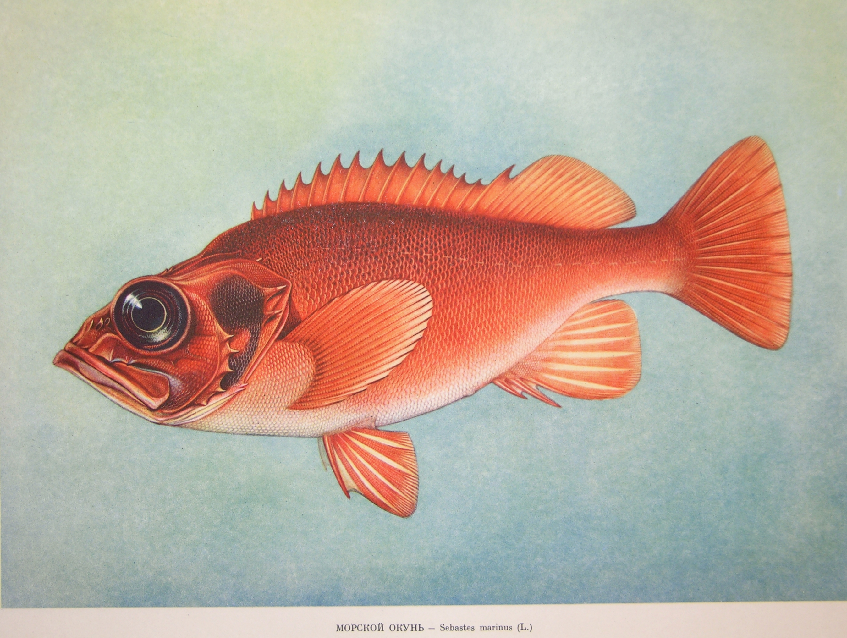 Sebastes marinus